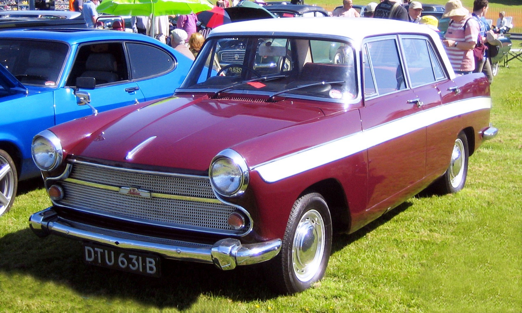 Austin A60 cambridge in a field near Brentwood